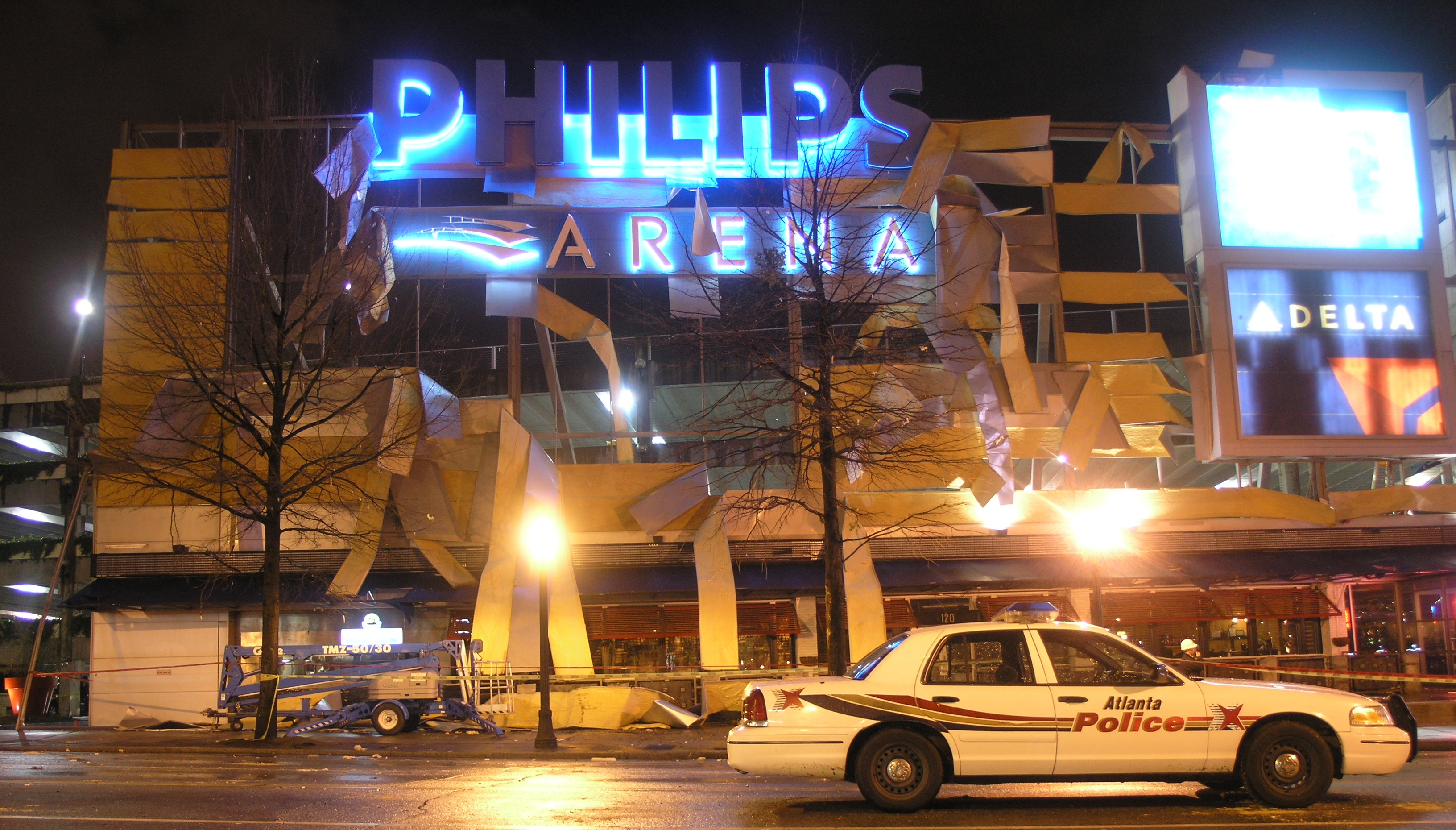 14 March 2008 Downtown Atlanta storm